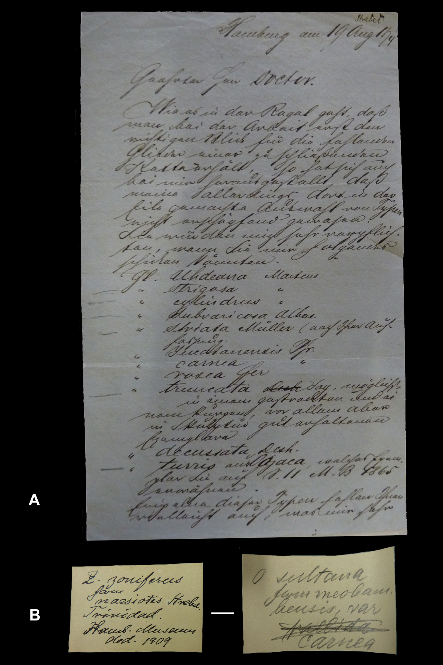 From the mollusc collection in the Museum für Naturkunde Berlin: Example of a handwriting through time. A Excerpt from letter of H. Strebel, d.d. Hamburg, 22.v.1877 (13.5 × 22.5 cm) B Labels in Strebel’s handwriting, ca. 1908.